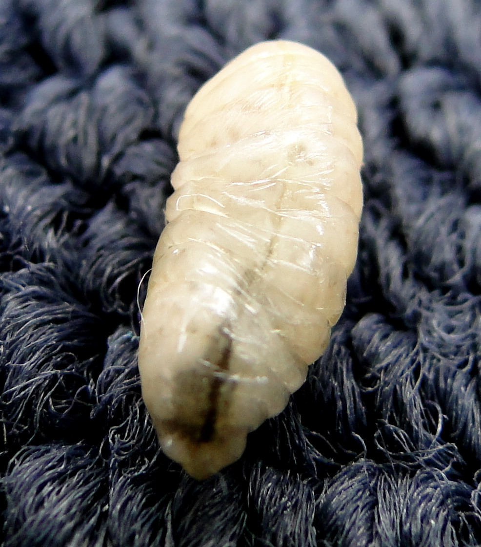 Common wasp larva (Vespula vulgaris)